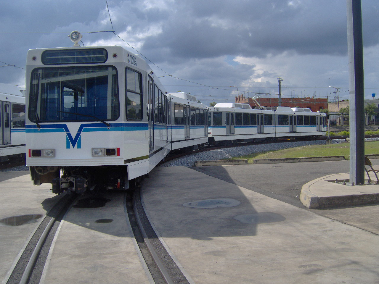 A Valencia metro train at the maintenance yard, crossing a private road (used by Metro de Valencia vehicles). The metro line itself has no level crossings.